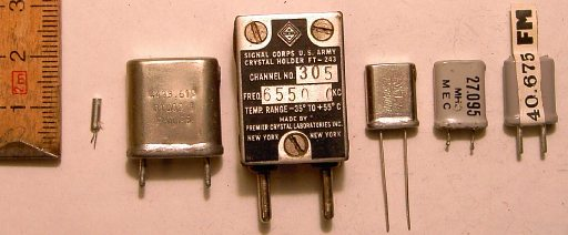 Quartz crystal resonators used in crystal oscillators: For clock applications (32768 Hz), old colour TV oscillator (4.433613 MHz), shortwave transciever (6550.0 KC or kHz), 12.8 MHz reference crystal, 27.095 MHz, 40.675 MHz